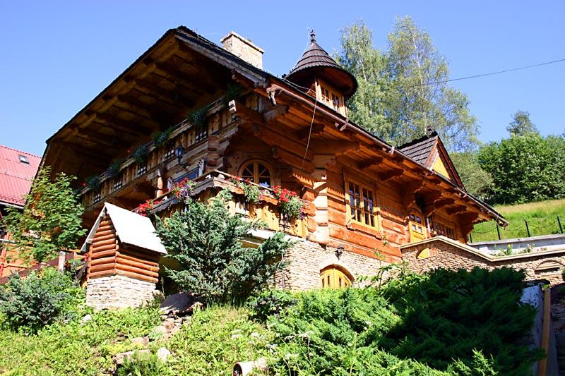 Wisla (Poland)